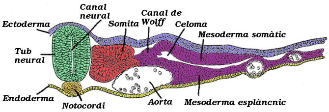 Catalan text for Colorized version of Image:Gray19.png, from Gray's Anatomy